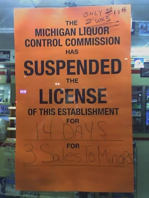 A sign posted on the door of a convenience store temporarily closed by the Michigan Liquor Control Commission for three sales of alcohol to minors. This store was actually CLOSED entirely, until the end of the 14 day suspension.